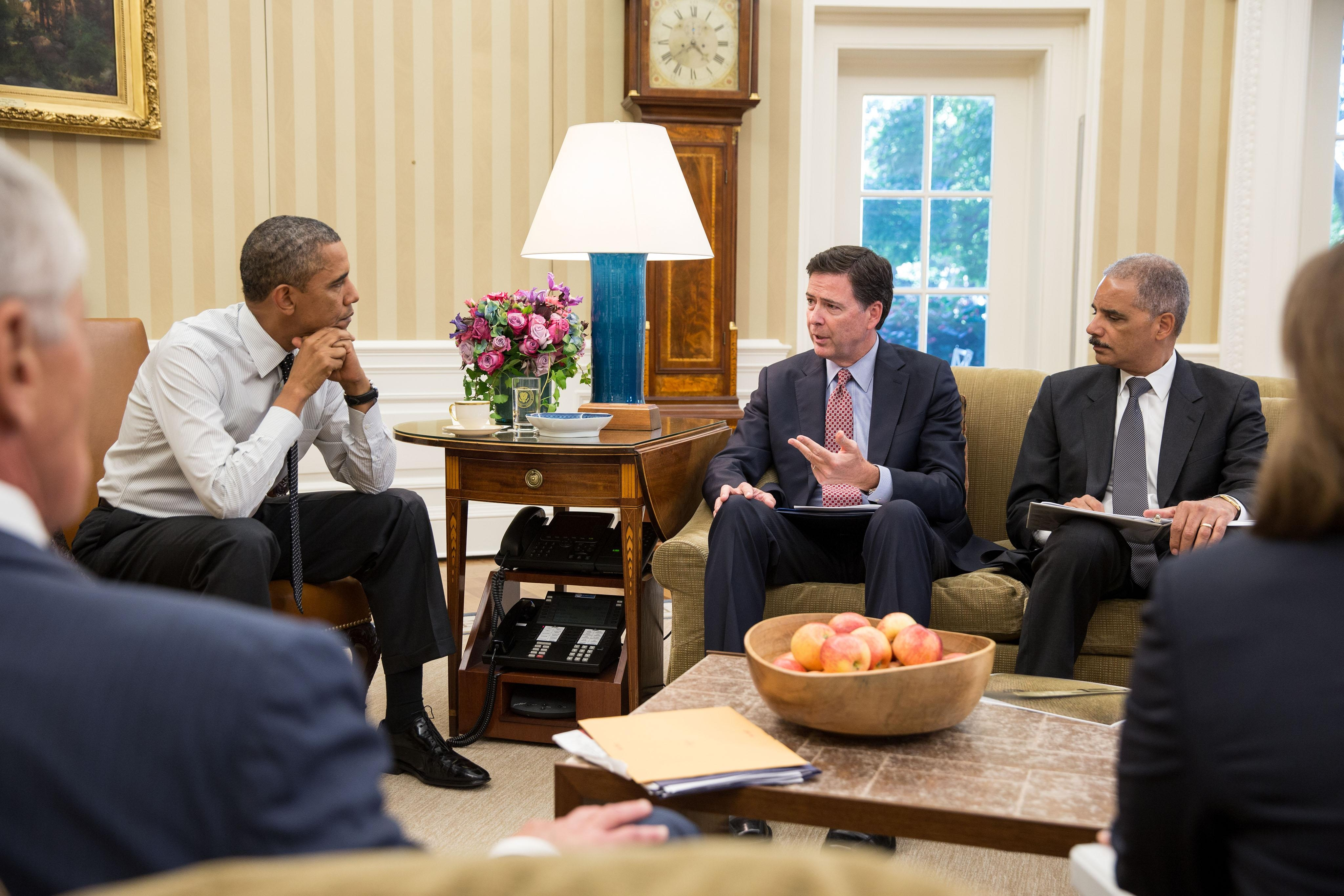 President Barack Obama receives an update on the Washington Navy Yard shootings investigation from FBI Director James Comey, left, and Attorney General Eric H. Holder, Jr. in the Oval Office, Sept. 17, 2013. Defense Secretary Chuck Hagel, far left, and Lisa Monaco, Assistant to the President for Homeland Security and Counterterrorism, also attended the meeting. (Official White House Photo by Pete Souza)